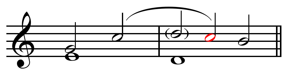 Syncope as passing tone.